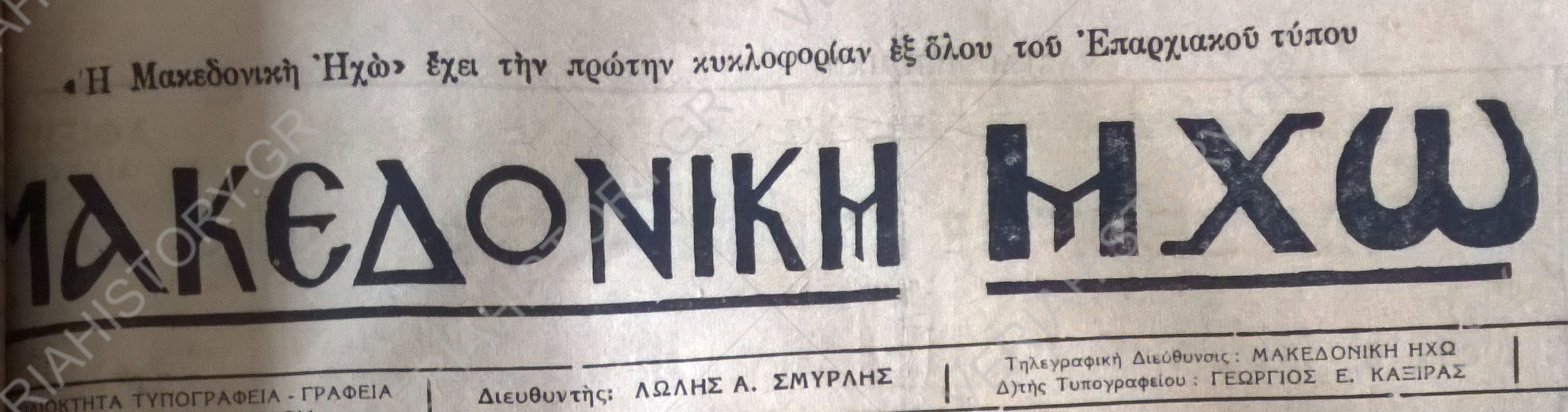 Makedoniki Iho newspaper